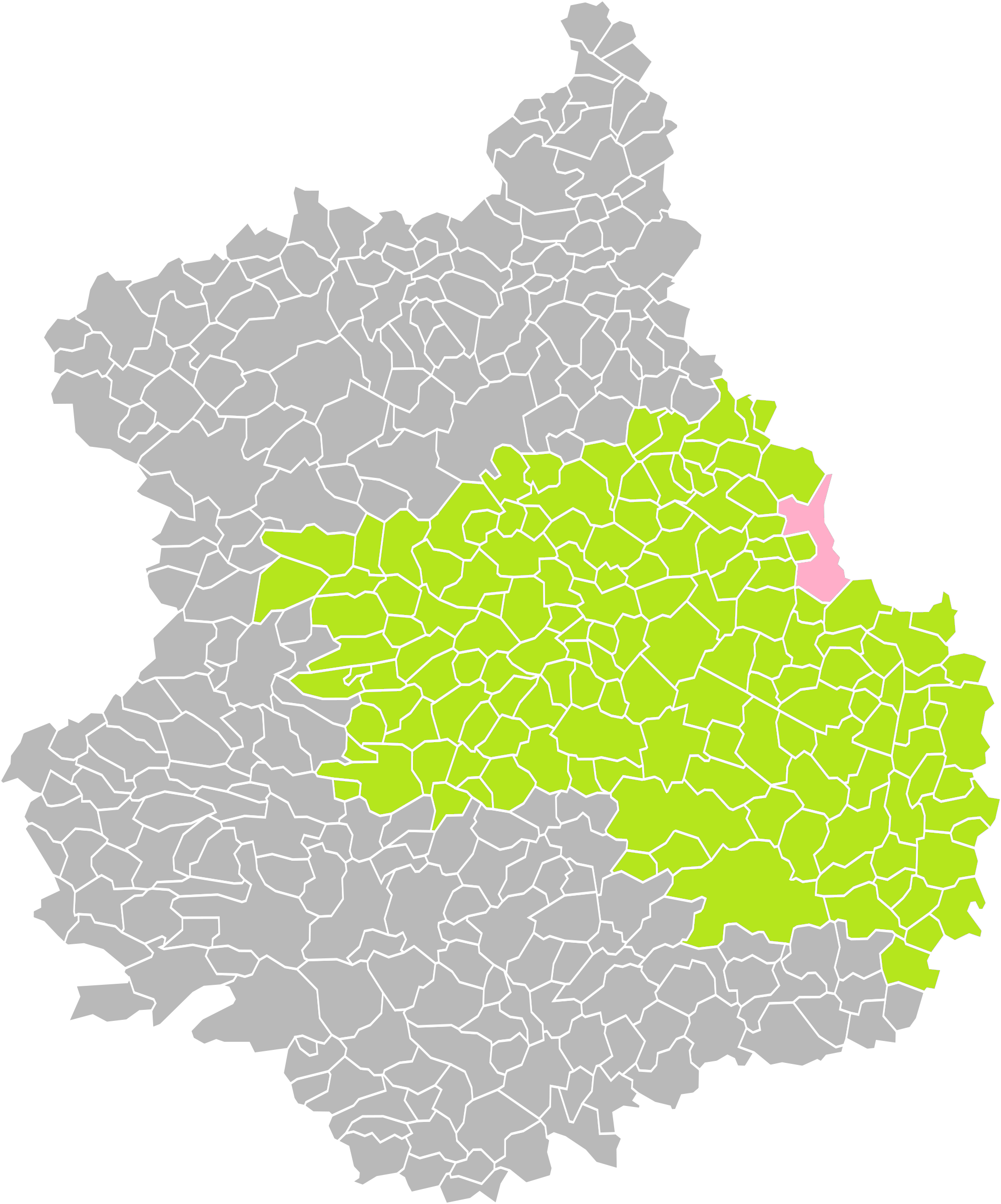 Location of the commune of Auneau-Bleury-Saint-Symphorien in the arrondissement of Chartres (Eure-et-Loir)